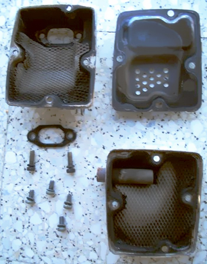 Expansion and silencer integrated into a exhaust demountable